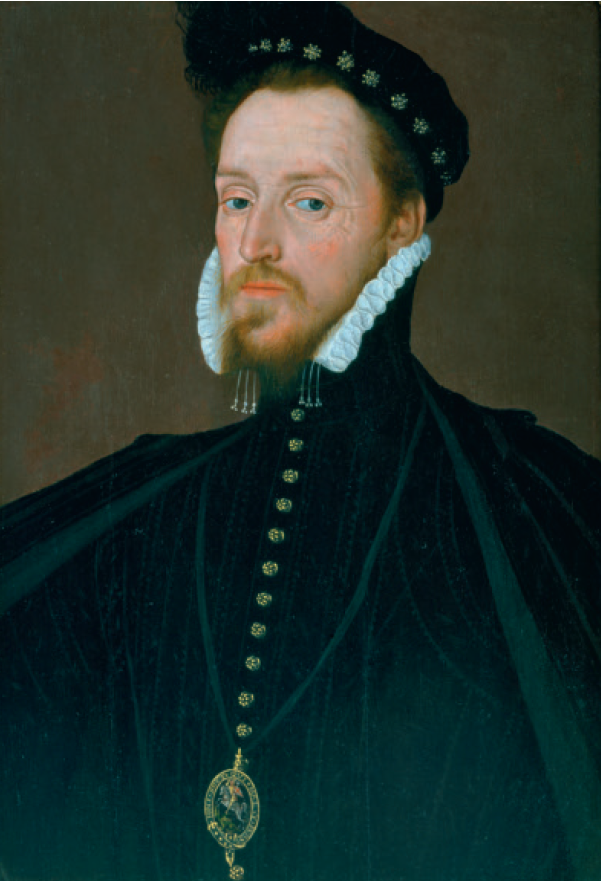 Portrait of Henry Carey, 1st Baron Hunsdon (1526-1596).